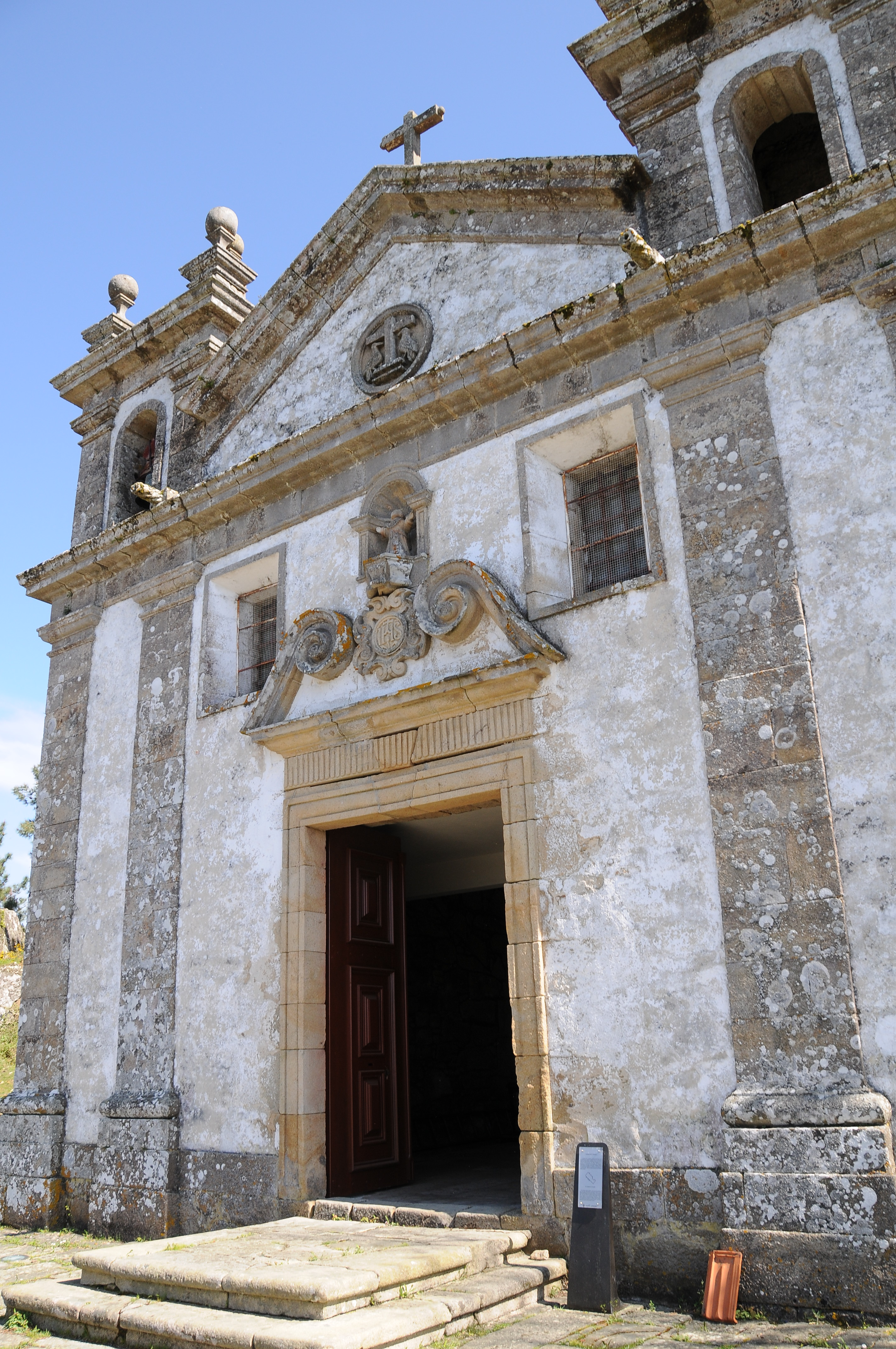 Sao Caetano Chapel in Monção, Portugal